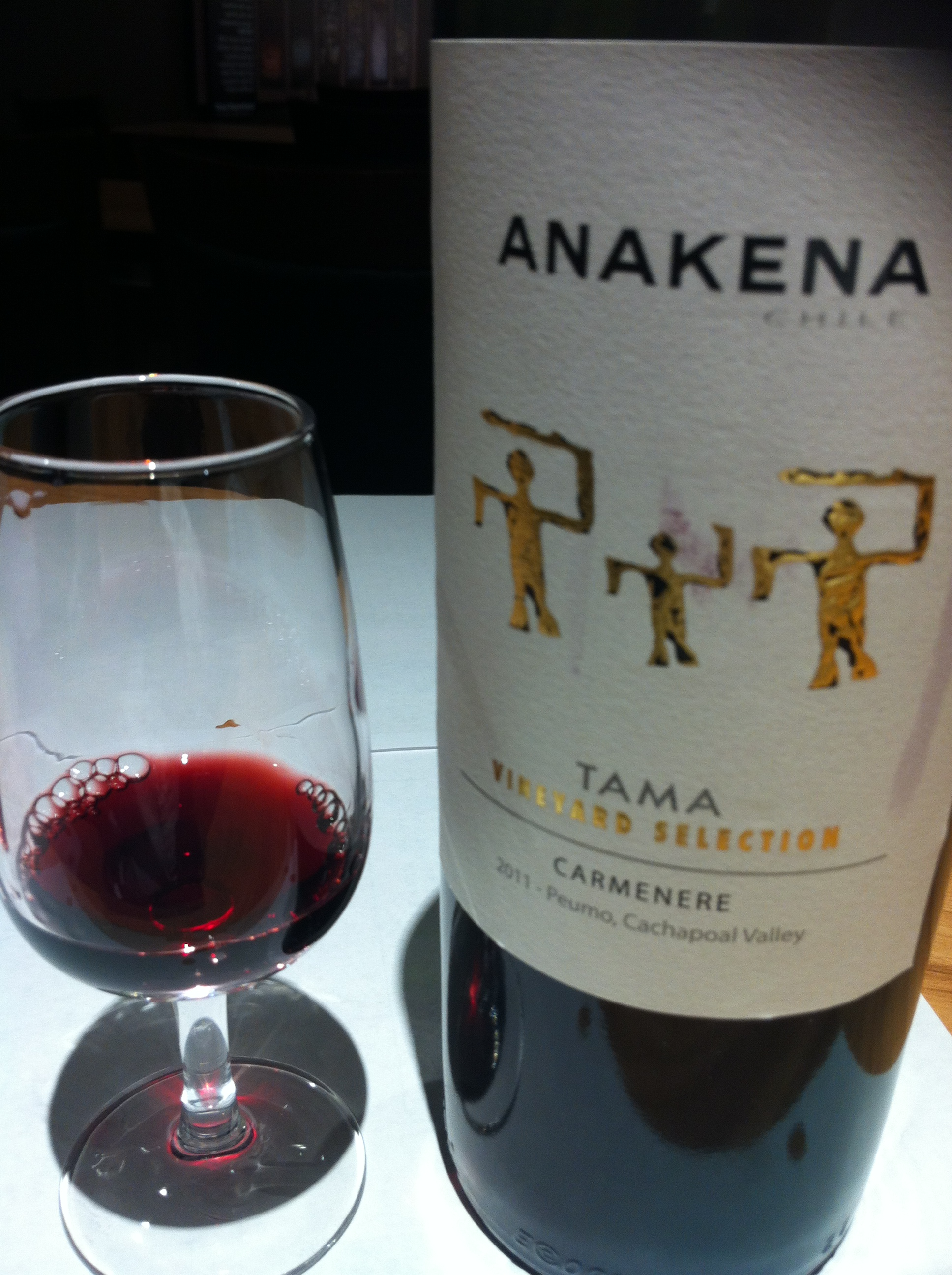 Carmenere wine for the Peumo region of the Cachapoal Valley